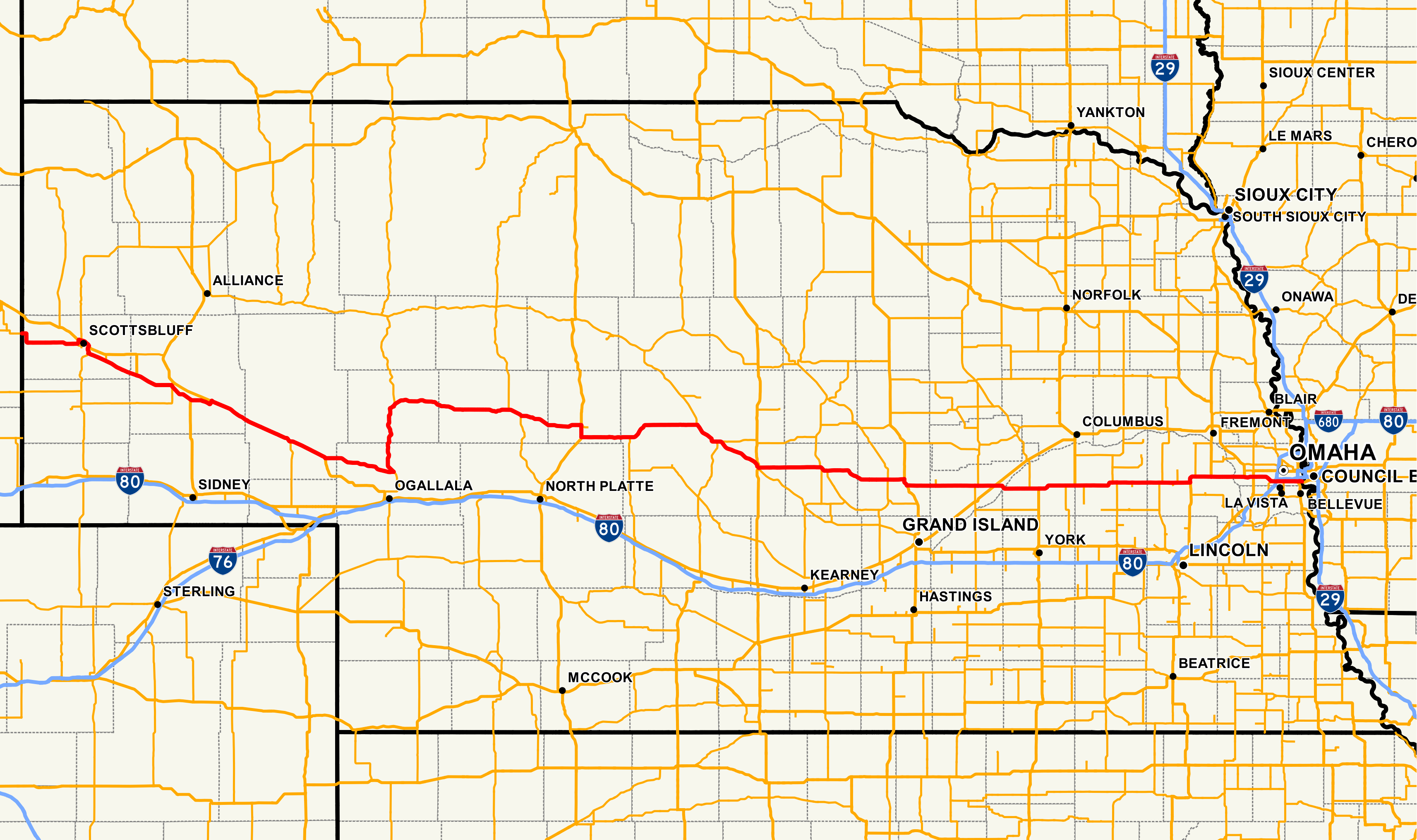 Map of Nebraska Highway 92 Data Sources: Nebraska Highways - - Dec 2016 Nebraska County Boundaries - - Dec 2016 Nebraska City Boundaries - - Dec 2016 This PNG graphic was created with QGIS